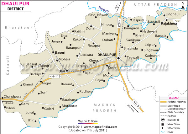 this photo covers villages of dholpur district.